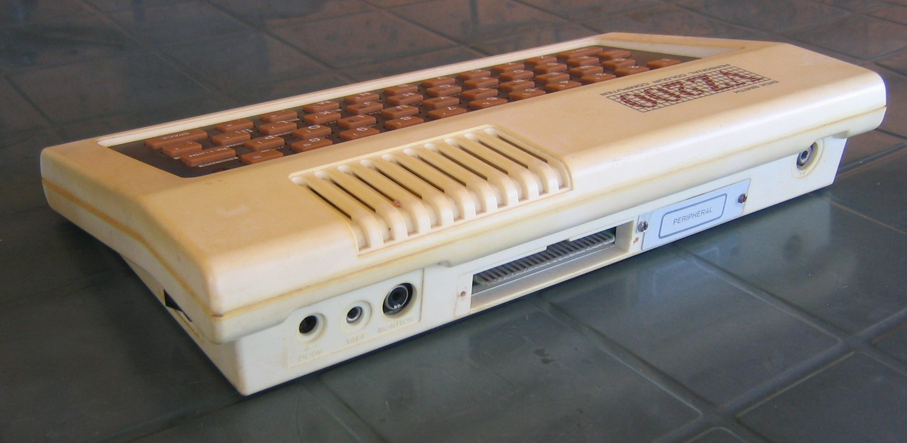 A VZ-200 computer, as sold by Dick Smith in Australia. This is a view of the rear. The rocker switch used to turn the computer on and off is just visible on the left hand side. From left to right the various items on the rear panel are: A 3.5mm DC power socket for the 9V DC power supply (DC9V) , a 3.5mm audio socket for an audio tape deck used to load and save programs (TAPE), an RCA socket which is composite video out for a monitor (MONITOR), a double sided 44 pin 0.1" pitch edge connector for memory expansion, a double sided 30 pin 0.1" pitch edge connector for peripherals and an RCA socket which is modulated video out to be plugged into the antenna socket of a television (TV). The text in brackets is the corresponding label for each connector and it is moulded into the plastic case near the associated item.